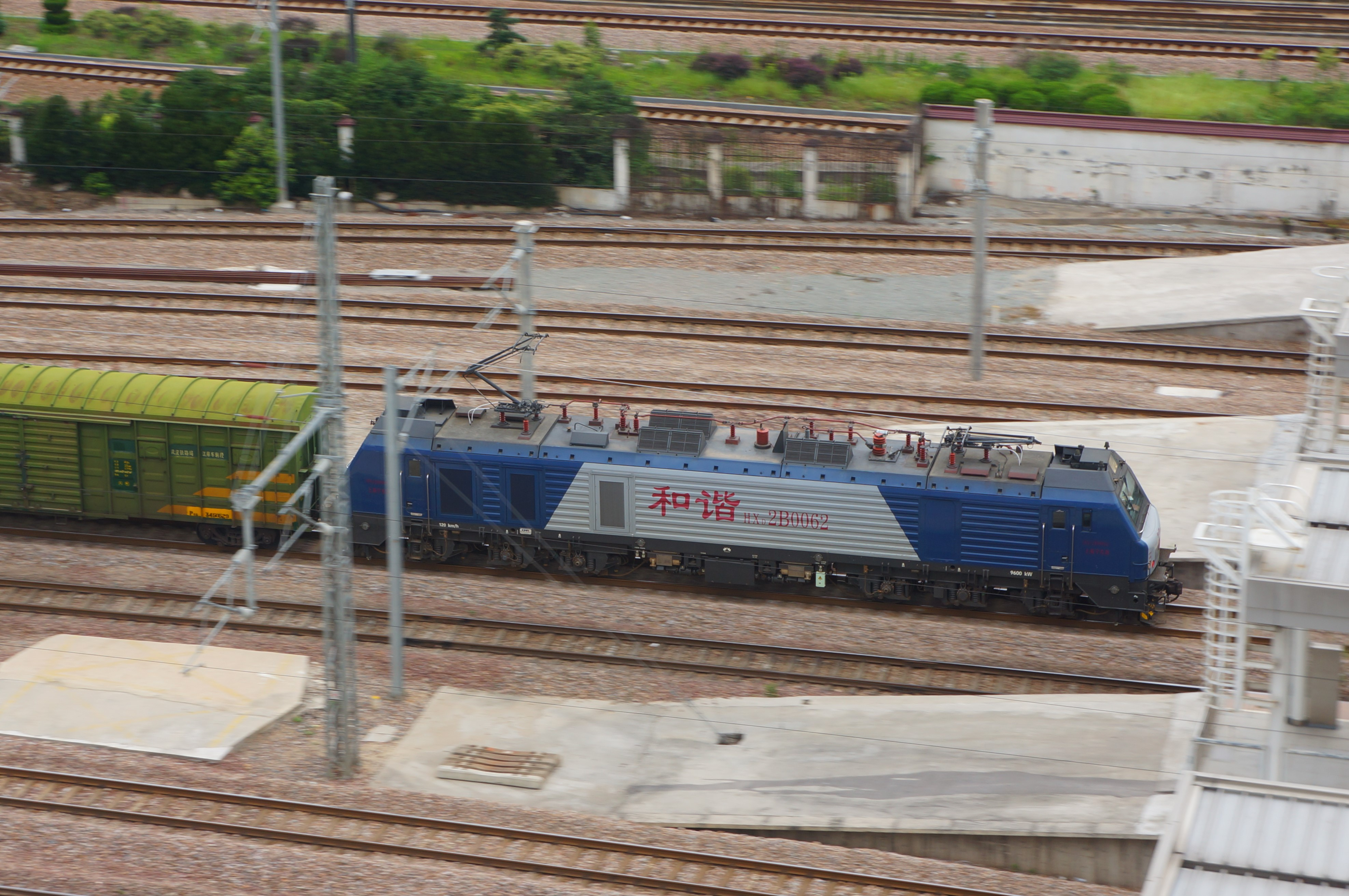 201906 HXD2B-0062 hauls Freight Train passes through Wuxi Station